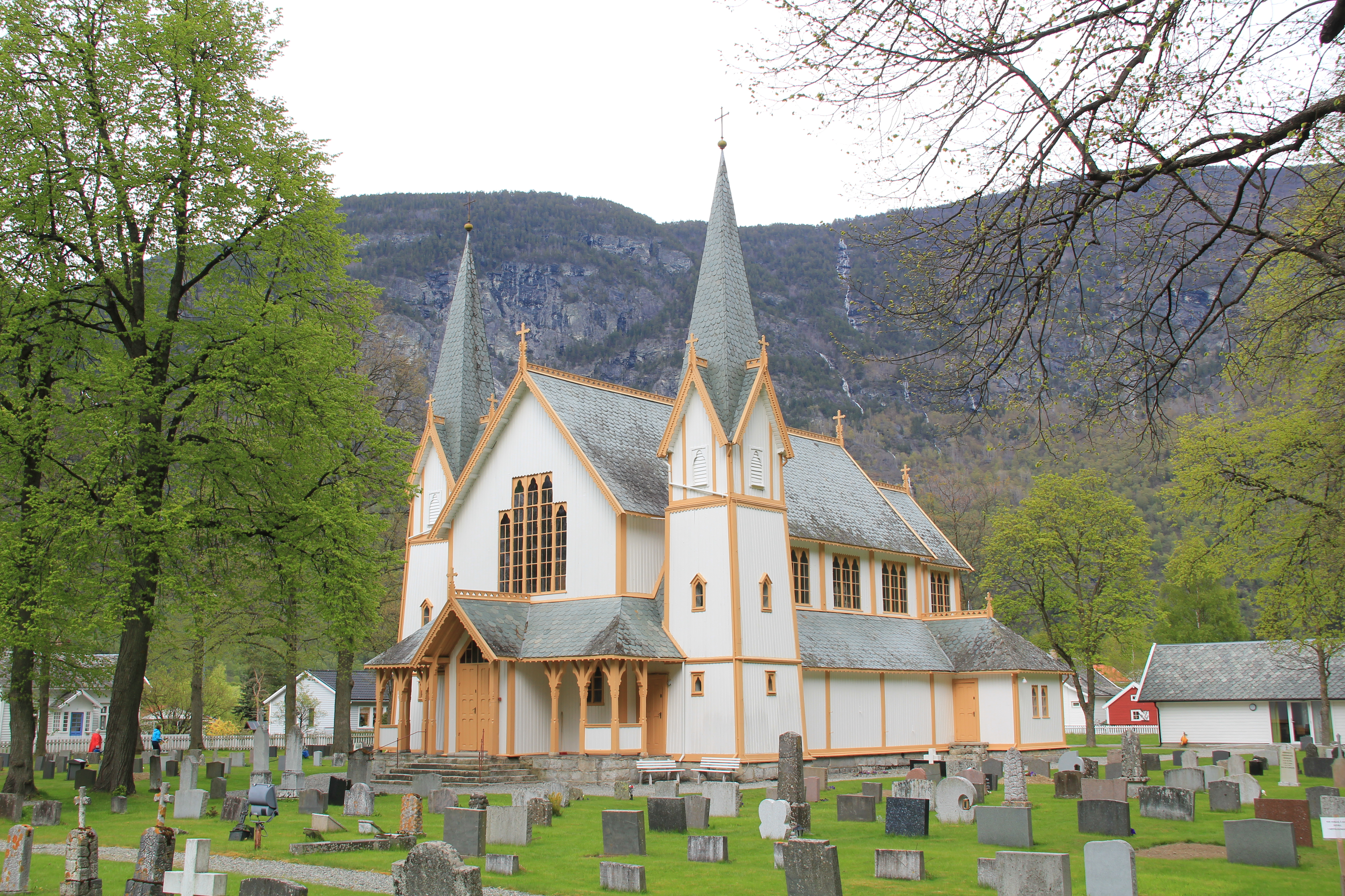 Hauge kirke, church in Lærdal